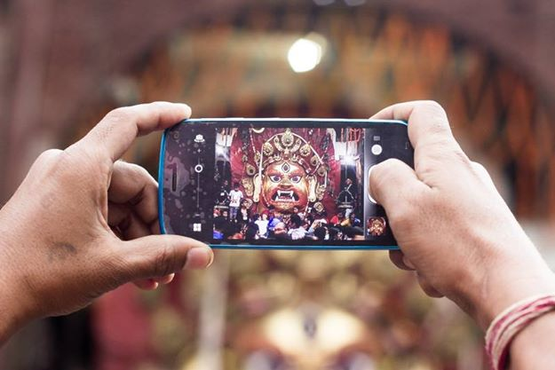 A tourist capturing a picture of the statue of Swet Bhairava during the festival of Indra Jatra in Kathmandu on 2014.